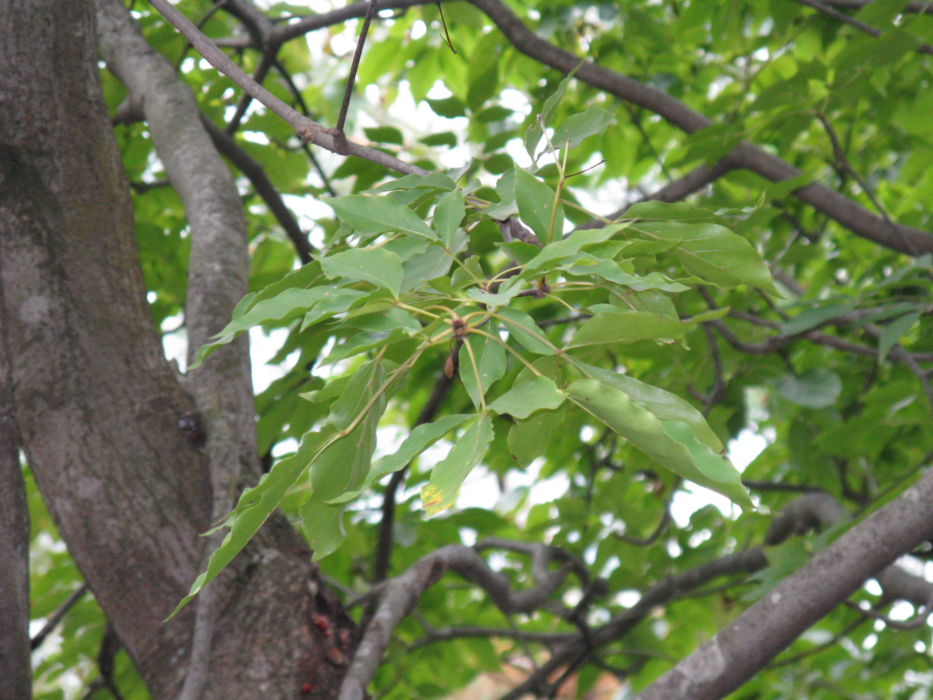 Scientific name Gamblea innovans